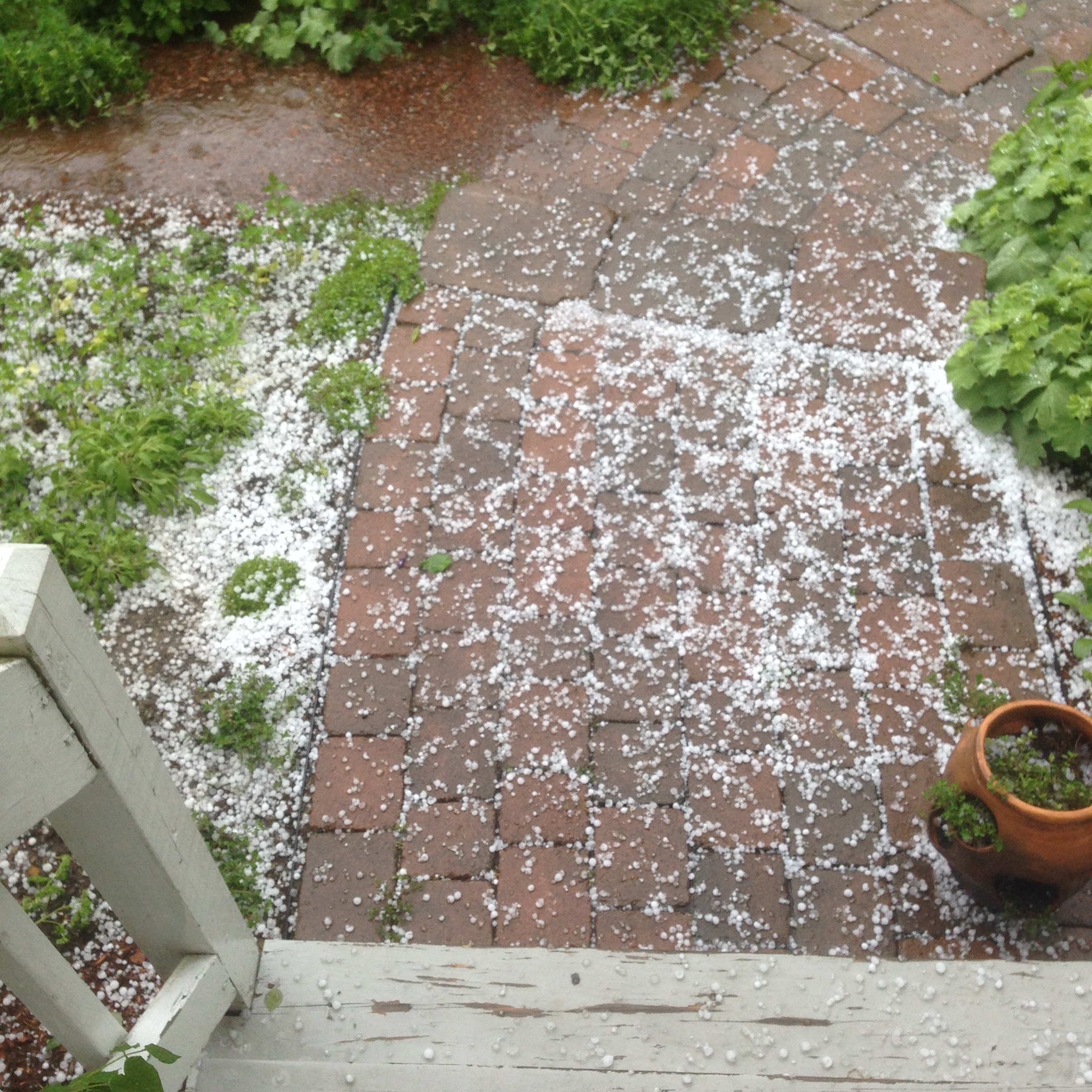 Accumulated hail after a storm in Charlton, Massachusetts